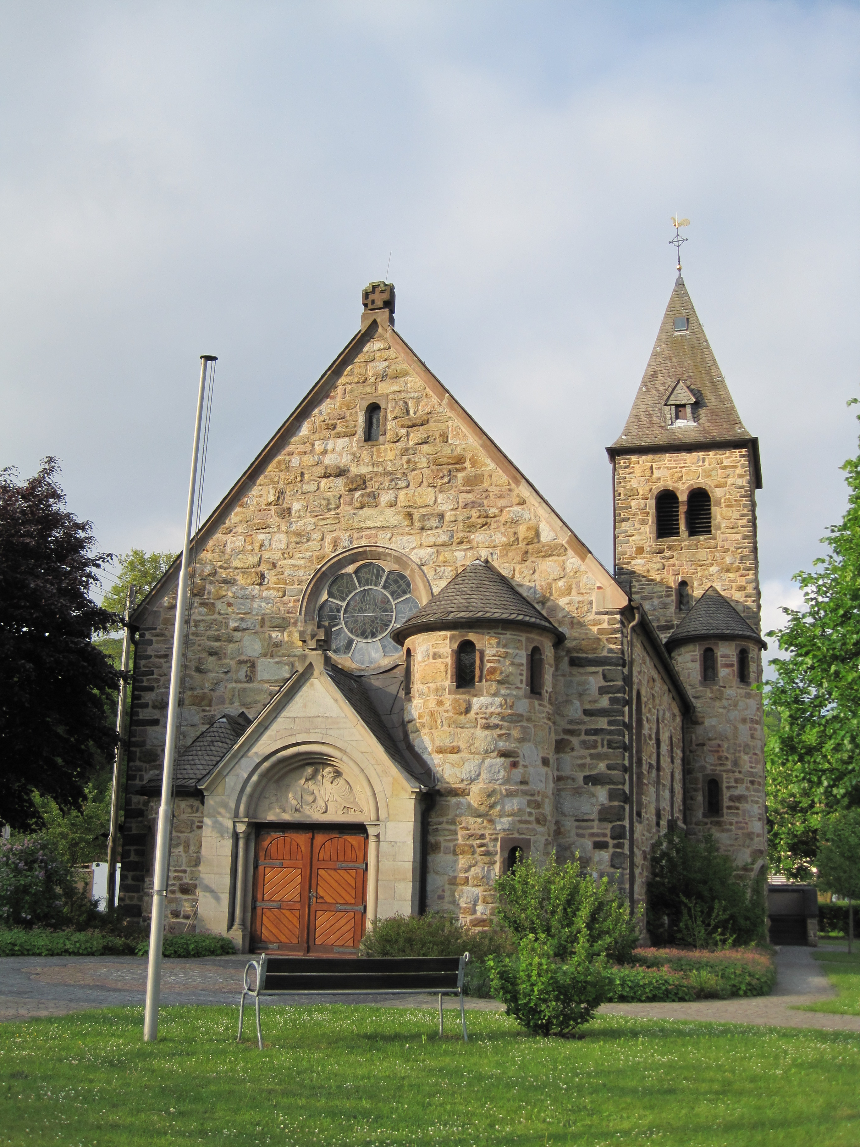 St. Elisabeth Benolpe, Kirchhundem, Germany check usage